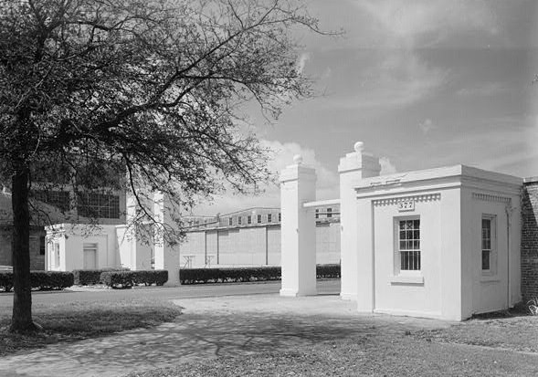 U.S. Naval Air Station, Navy Yard Gate, South Avenue near intersection with West Avenue, Pensacola (Escambia County, Florida) Image courtesy of federal HABS—Historic American Buildings Survey in Florida project (cropped).